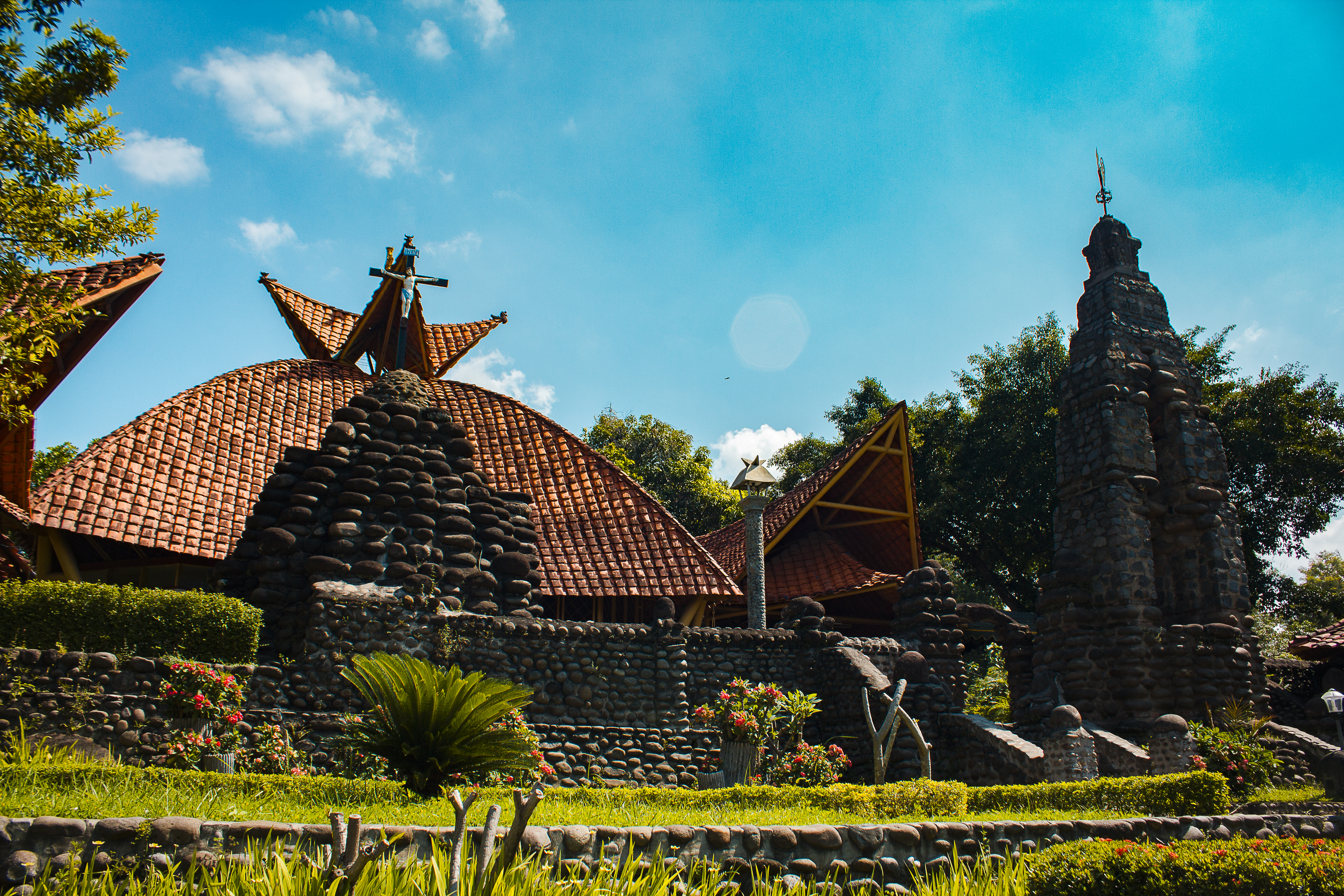 Menelusuri keindahan Goa Maria Lordes di Pohsarang, Kediri